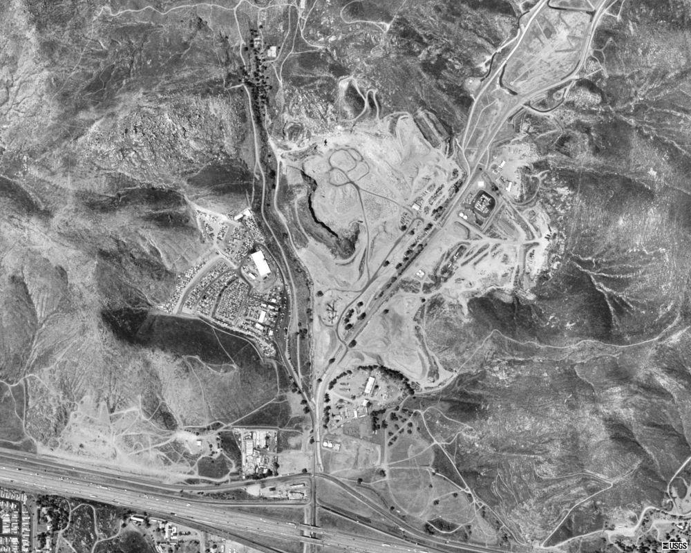 2002 USGS orthophoto of the Stringfellow Acid Pits, a Superfund toxic waste site in unincorporated Riverside County, California.